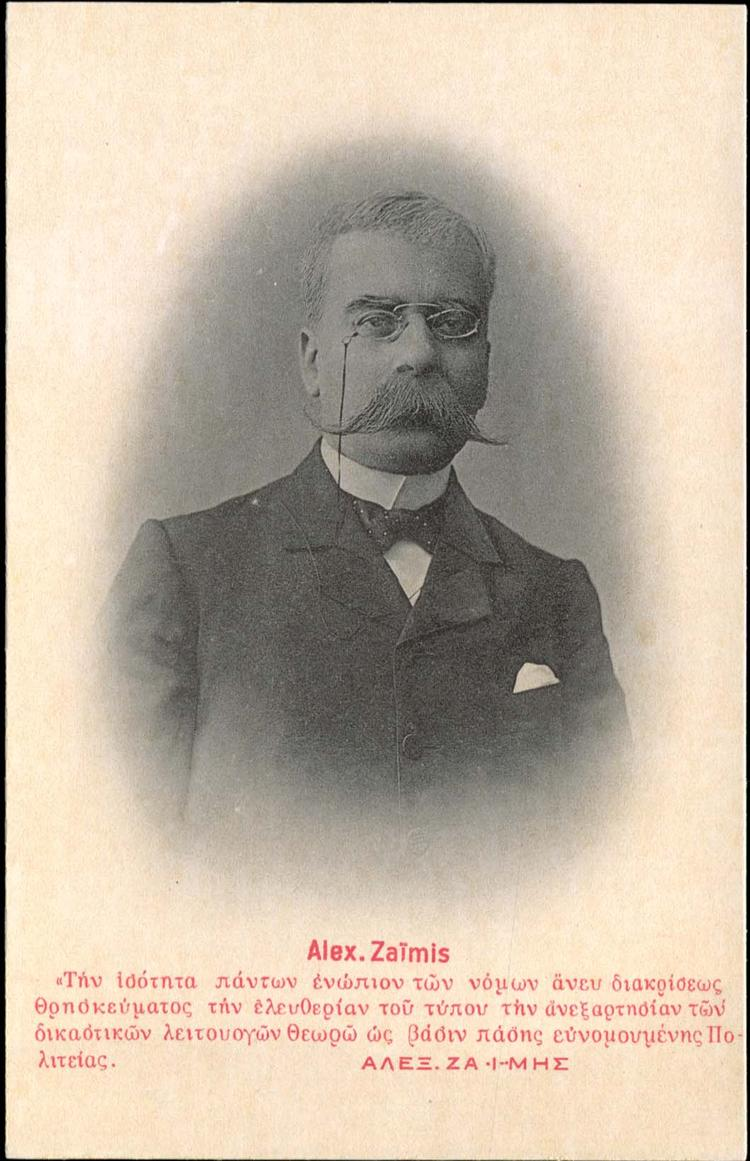 Photo of Alexandros Zaimis